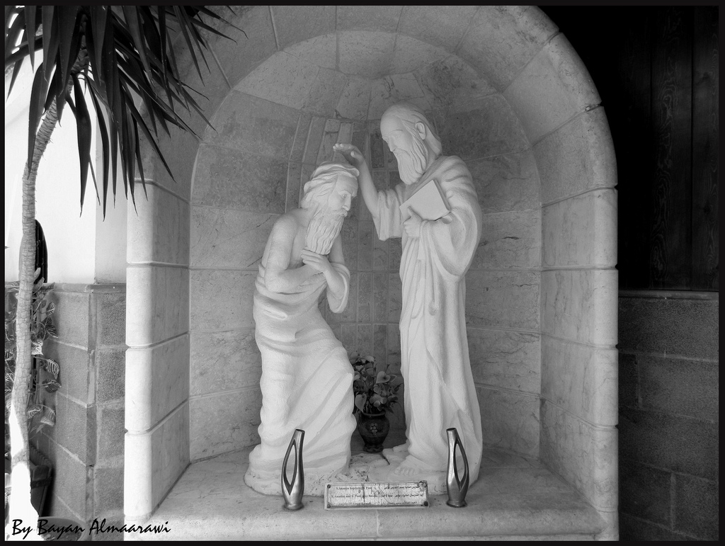 House of Saint Ananias